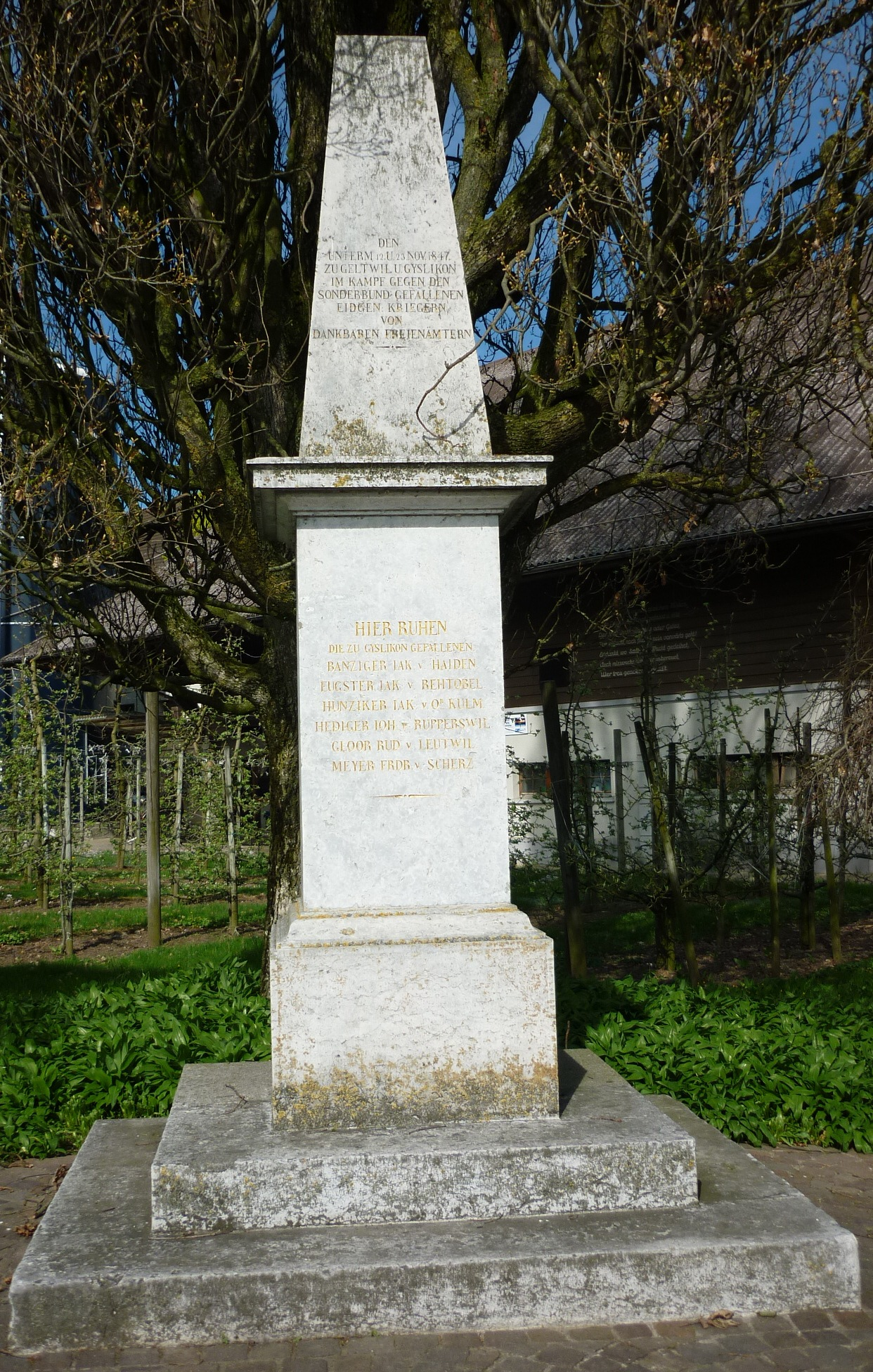 Monument "Sonderbund" civil war, Geltwil AG, Switzerland Denkmal Sonderbundskrieg, Geltwil AG, Schweiz